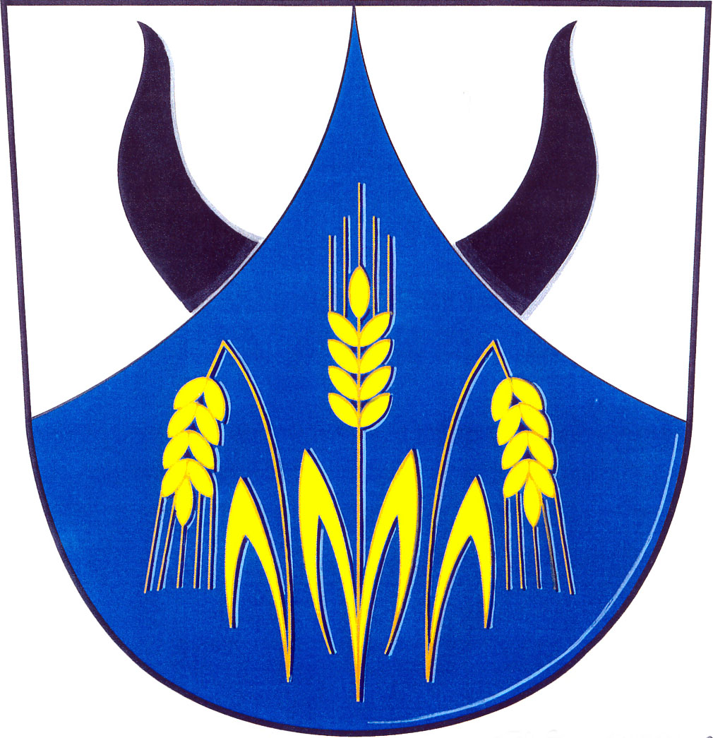 Municipal coat of arms of Choteč village, Pardubice District, Czech Republic.